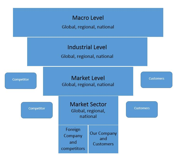 Aggregation levels in stretegic analysis